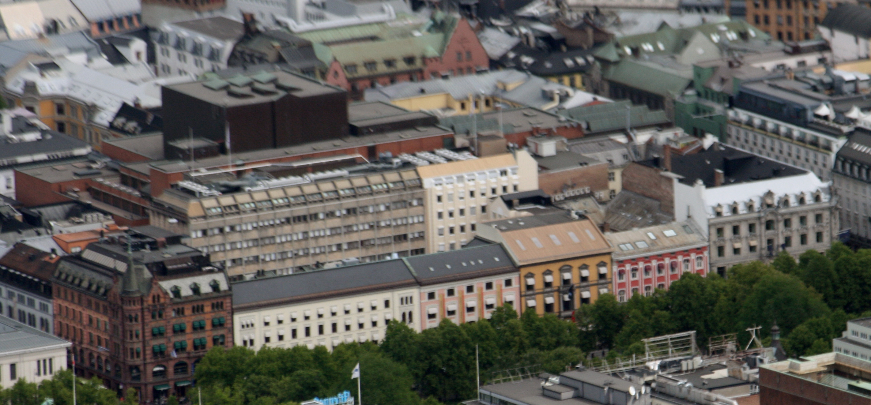 Aerial photograph from June 14th, 2015.